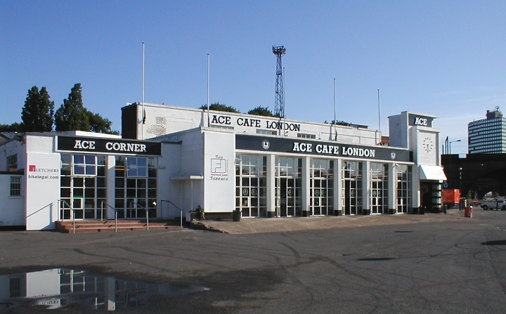 A view of the Ace Cafe. The image was taken with an Olympus Camedia D-230.